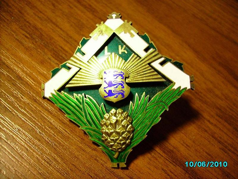 Most rare decoration of Estonian Republic. Only one awarded to the President of Estonian Republic.